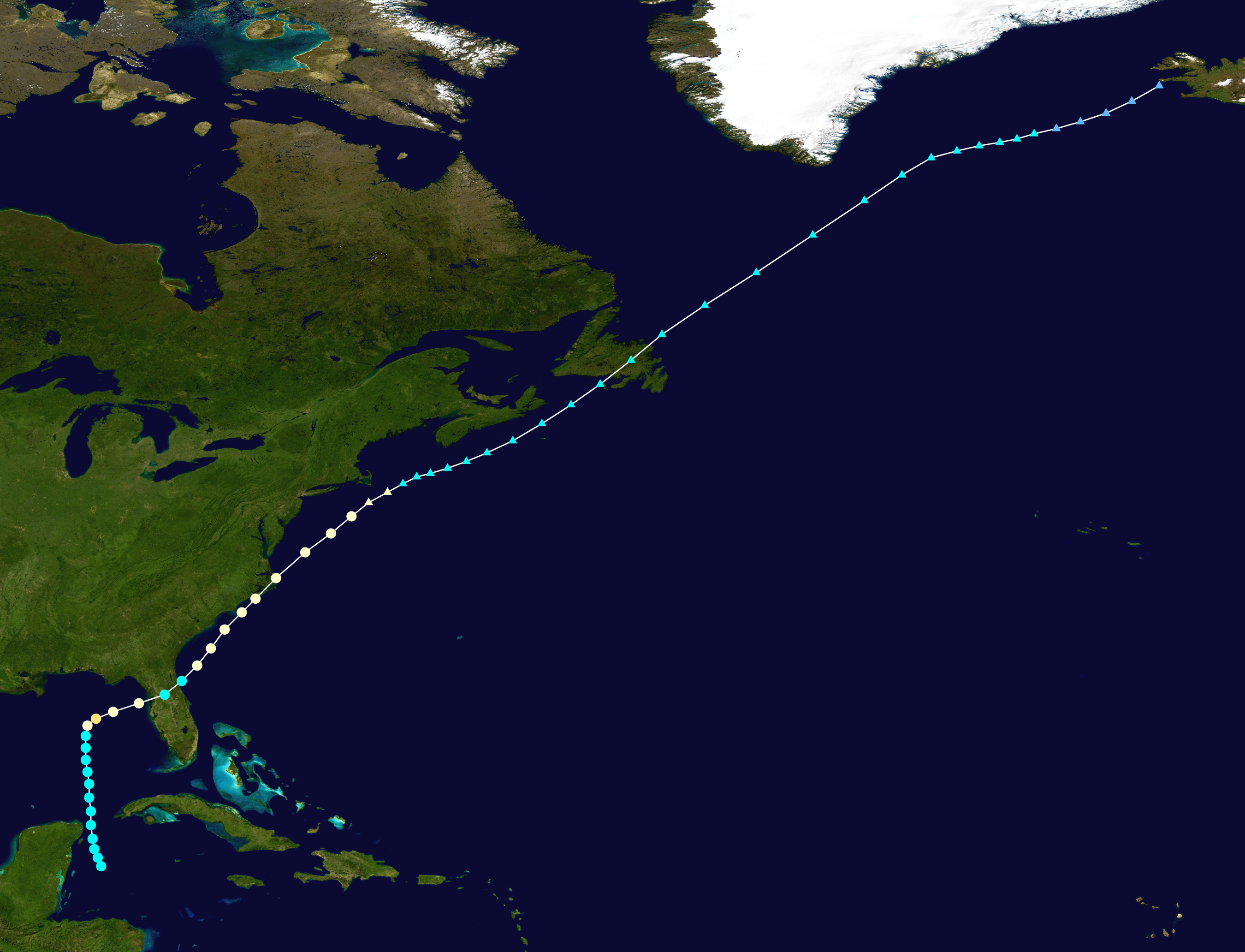 1945 Atlantic hurricane 1 (1945) track. Uses the color scheme from the Saffir-Simpson Hurricane Scale.